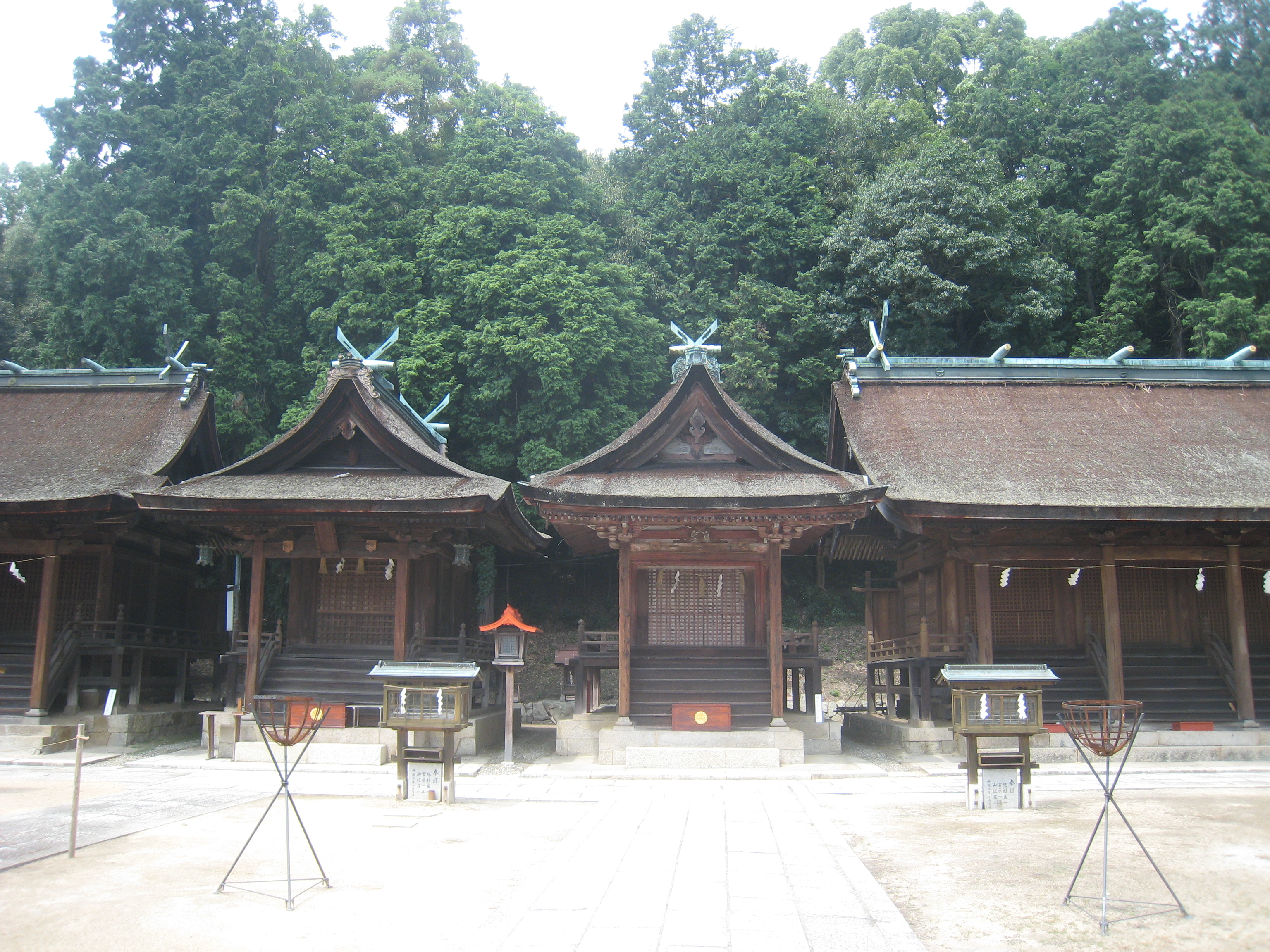 the main shrines(Important Cultural Properties)